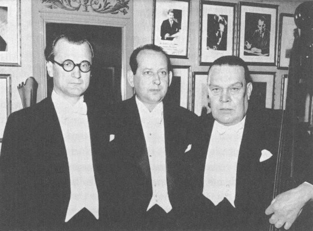 Photograph of the conductor Olav Roots, composer Eduard Tubin and double-bass virtuoso Ludvig Juht in Stockholm.